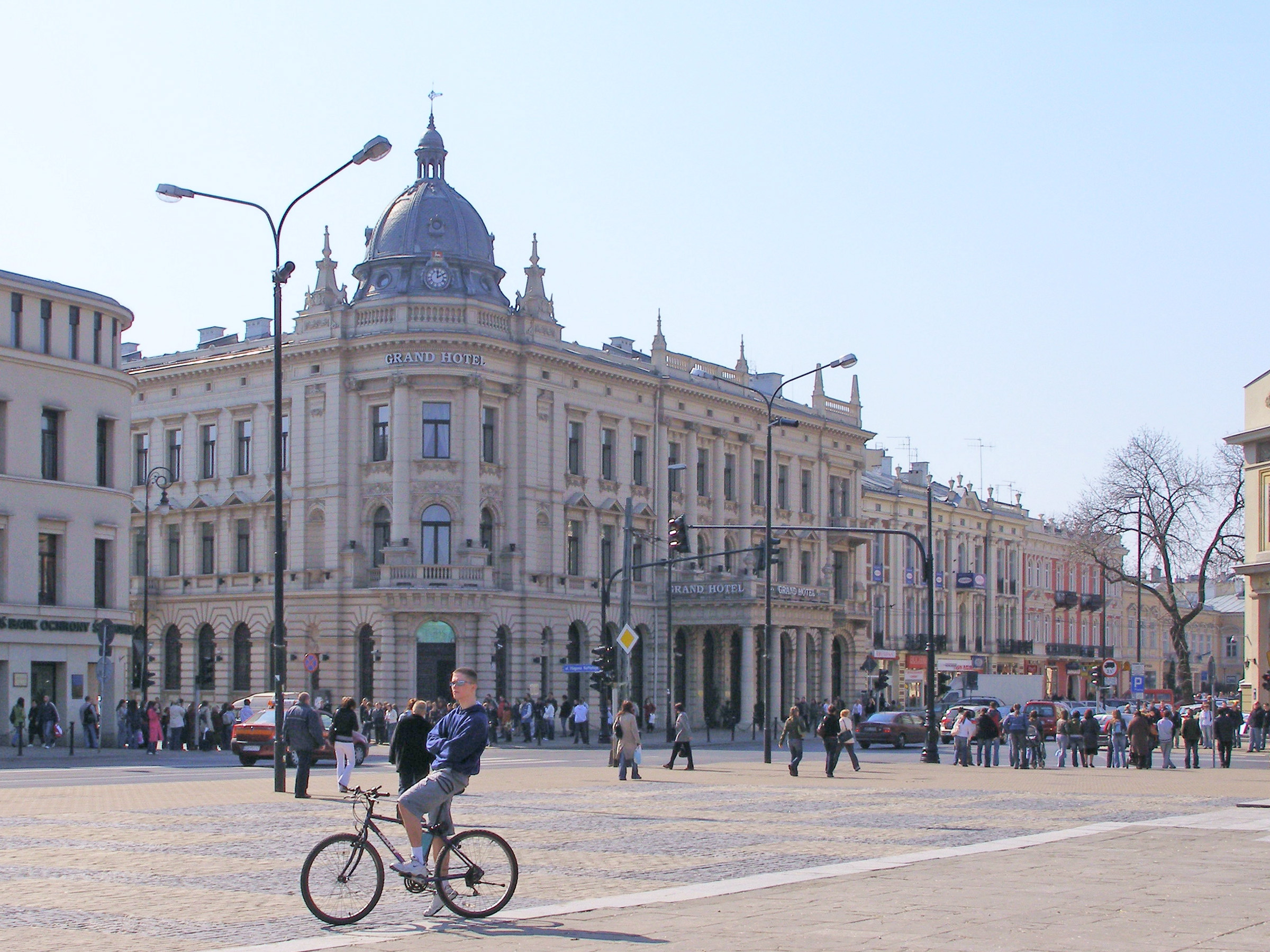 Grand Hotel, Krakowskie Przedmiescie street in Lublin.